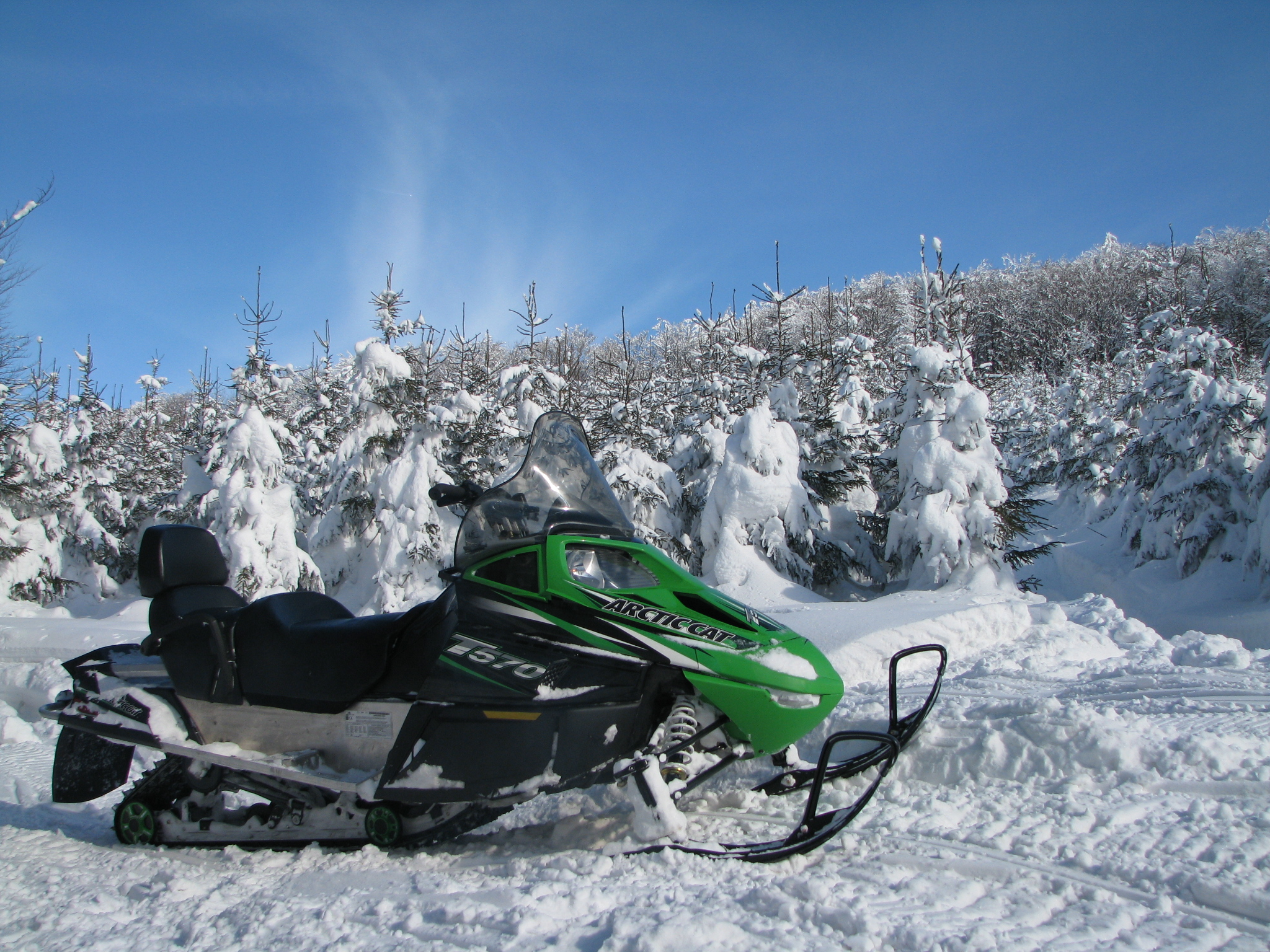 Snowmobile arcticcat, touring